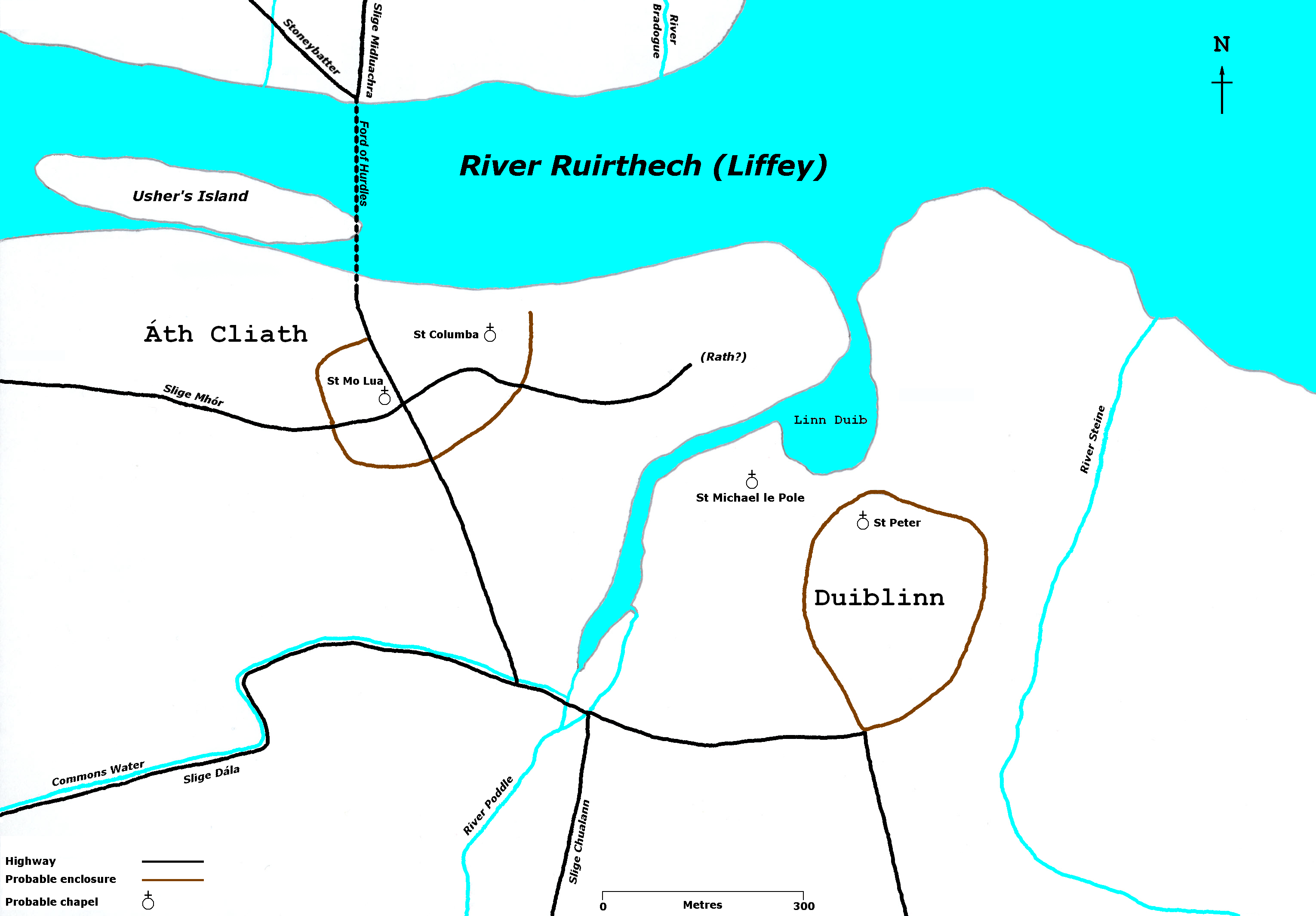 Map of Dublin, Ireland, circa 800 CE